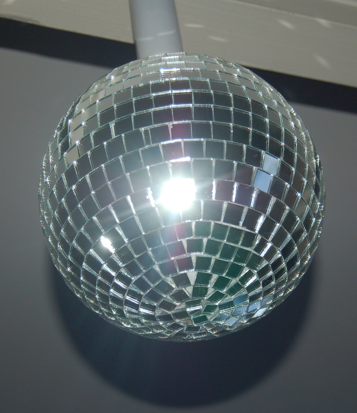 disco ball